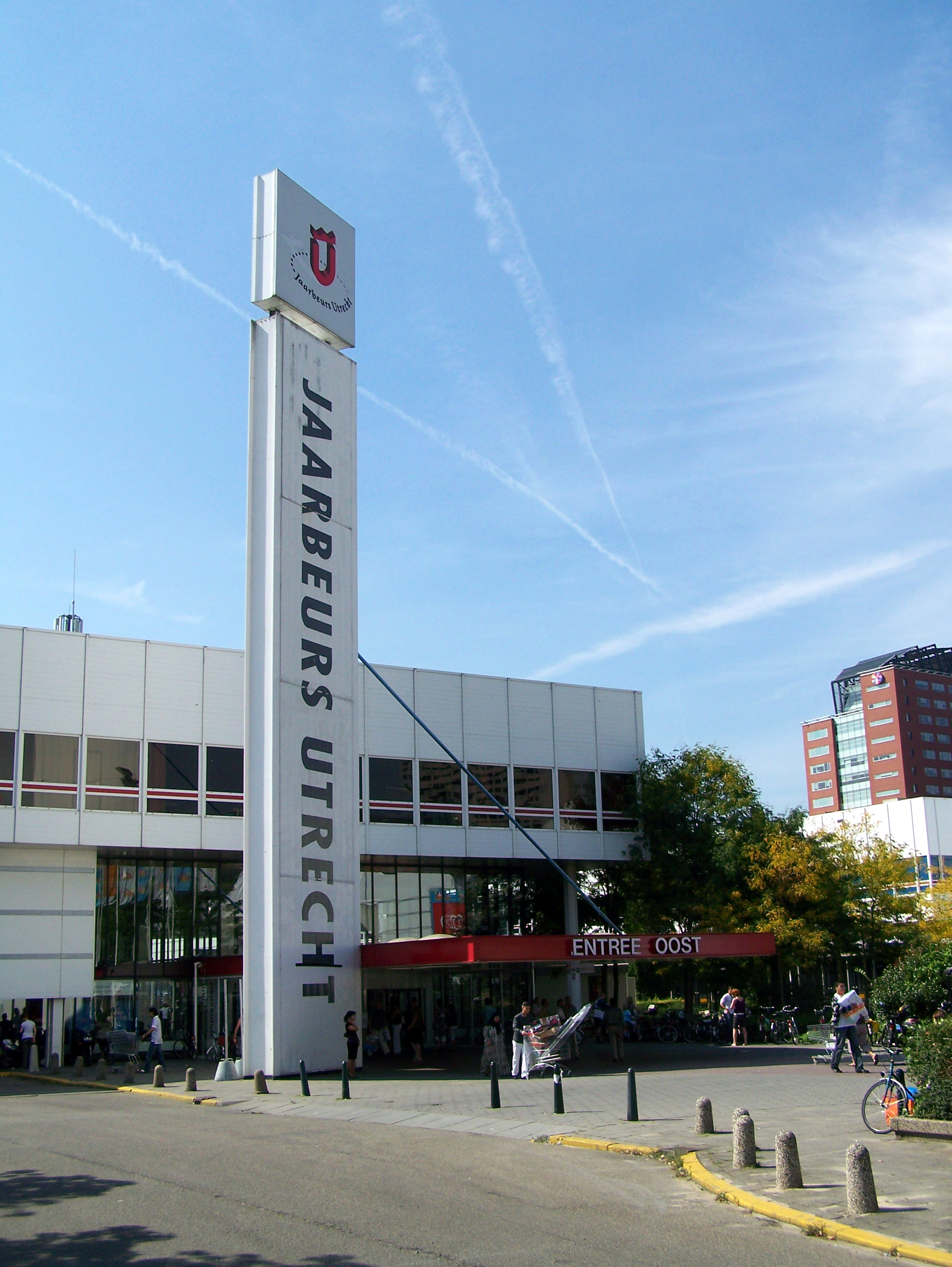 Eastern (and main) entrance of the Jaarbeurs in Utrecht.